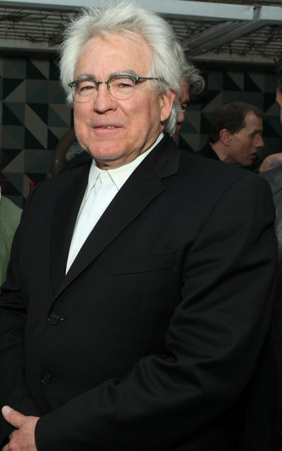 CFC in L.A. 40 (L-R) Michelle Sutter, Isabel Gomez-Moriana, and Ron Yerxa. To mark 25 years of inspiring exceptional talent and strong cross border partnerships, CFC celebrated the great friends and supporters who represent our rich film and TV culture. The event, held at the Avalon Hotel Beverly Hills, with CFC Board Member Eugene Levy acting as master of ceremonies, toasted the accomplishments of CFC's over 1,500 alumni pushing boundaries internationally in film, television, screen acting, music, and digital media.(Photo by Rebecca Sapp.)